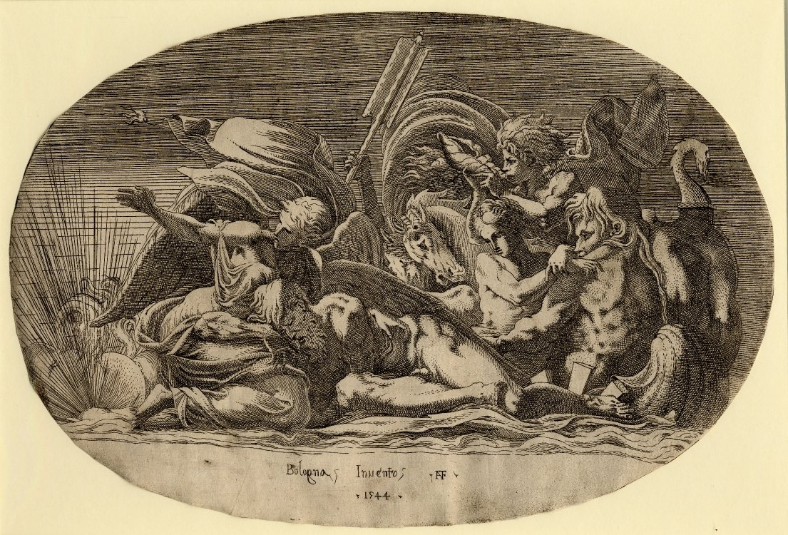 Print by Antonio Fantuzzi, British Museum, Kronos sleeping, his head resting in the lap of a winged figure; next to them, Poseidon reclining with a Nereid in his arms, two horses, and two tritons; within oval. Dated 1544 Etching by: Antonio Fantuzzi After: Francesco Primaticcio After an original composition designed by Primaticcio for the Porte Dorée, Fontainebleau. A preparatory drawing is kept at the Musée du Louvre, Paris; see 'École de Fontainebleau', Paris 1972, cat. No.324.